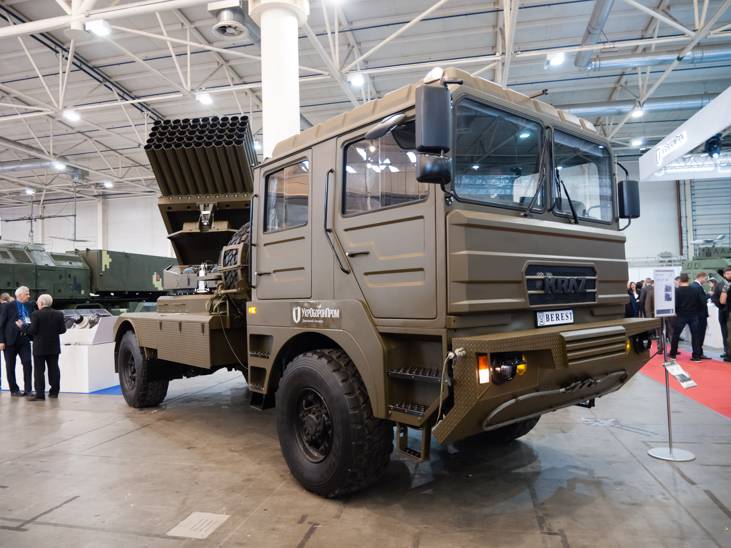 BM-21UM Berest Ukrainian MRLS, 'Zbroya ta Bezpeka' military fair, Kyiv, Ukraine, 2018